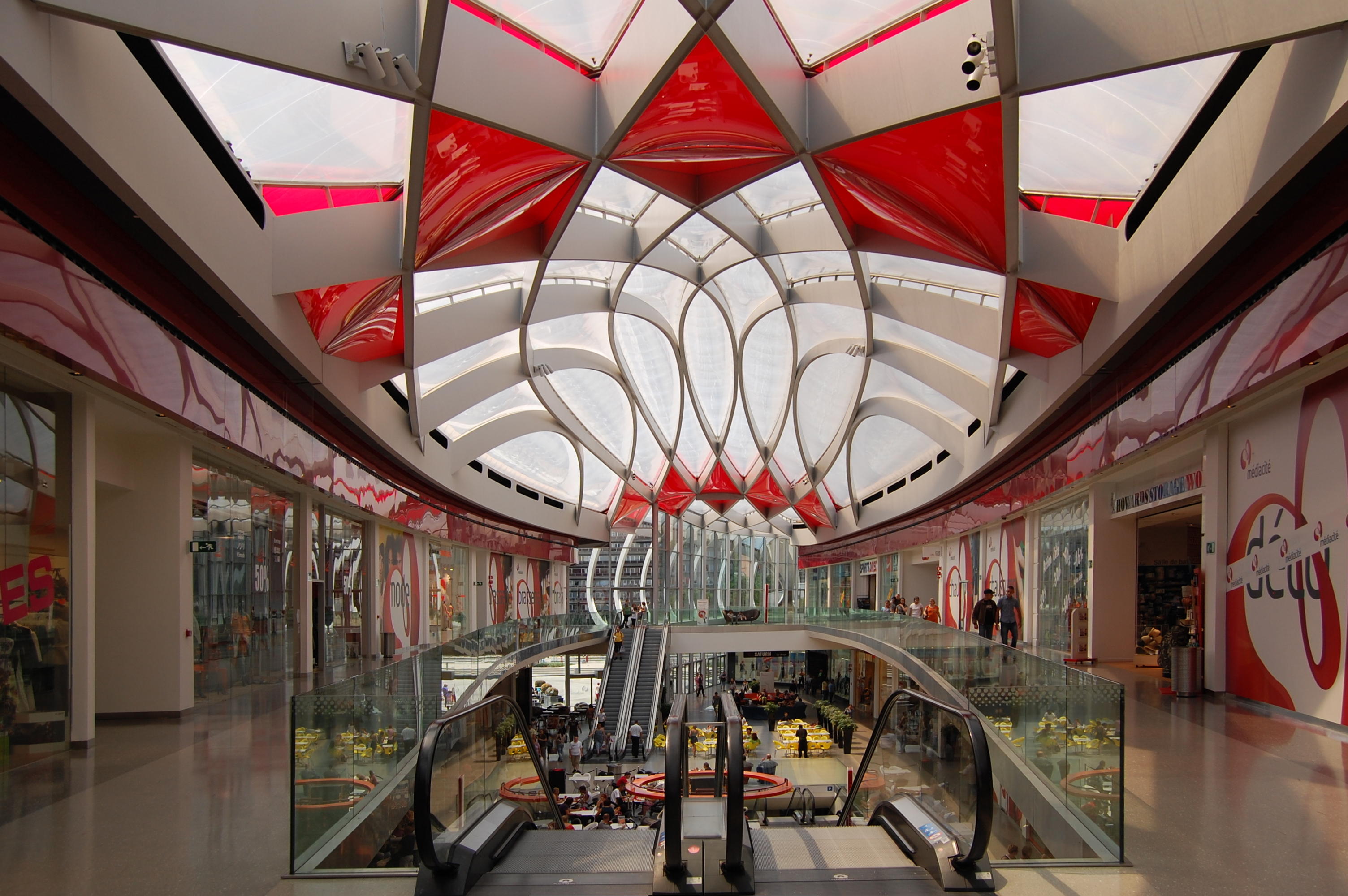 Shopping mall Médiacité, Liège